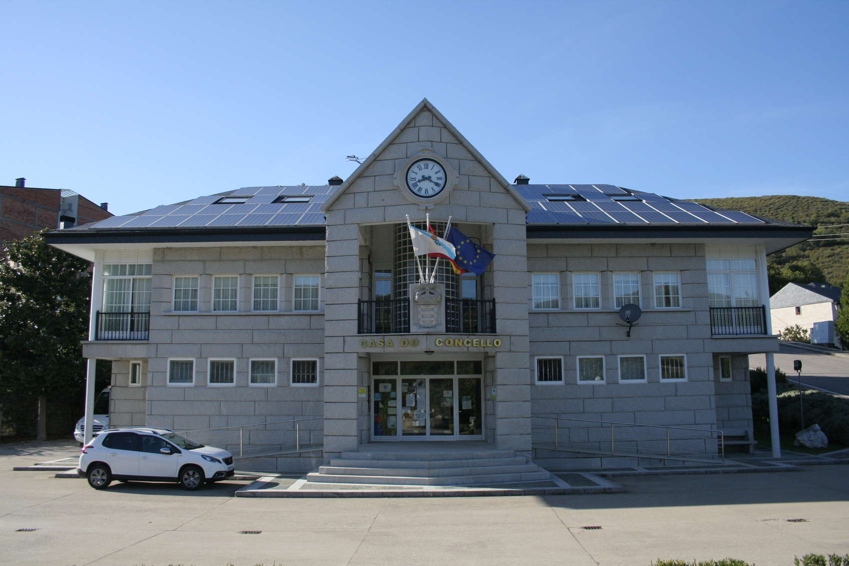 Town Hall in Vilariño de Conso (Spain)